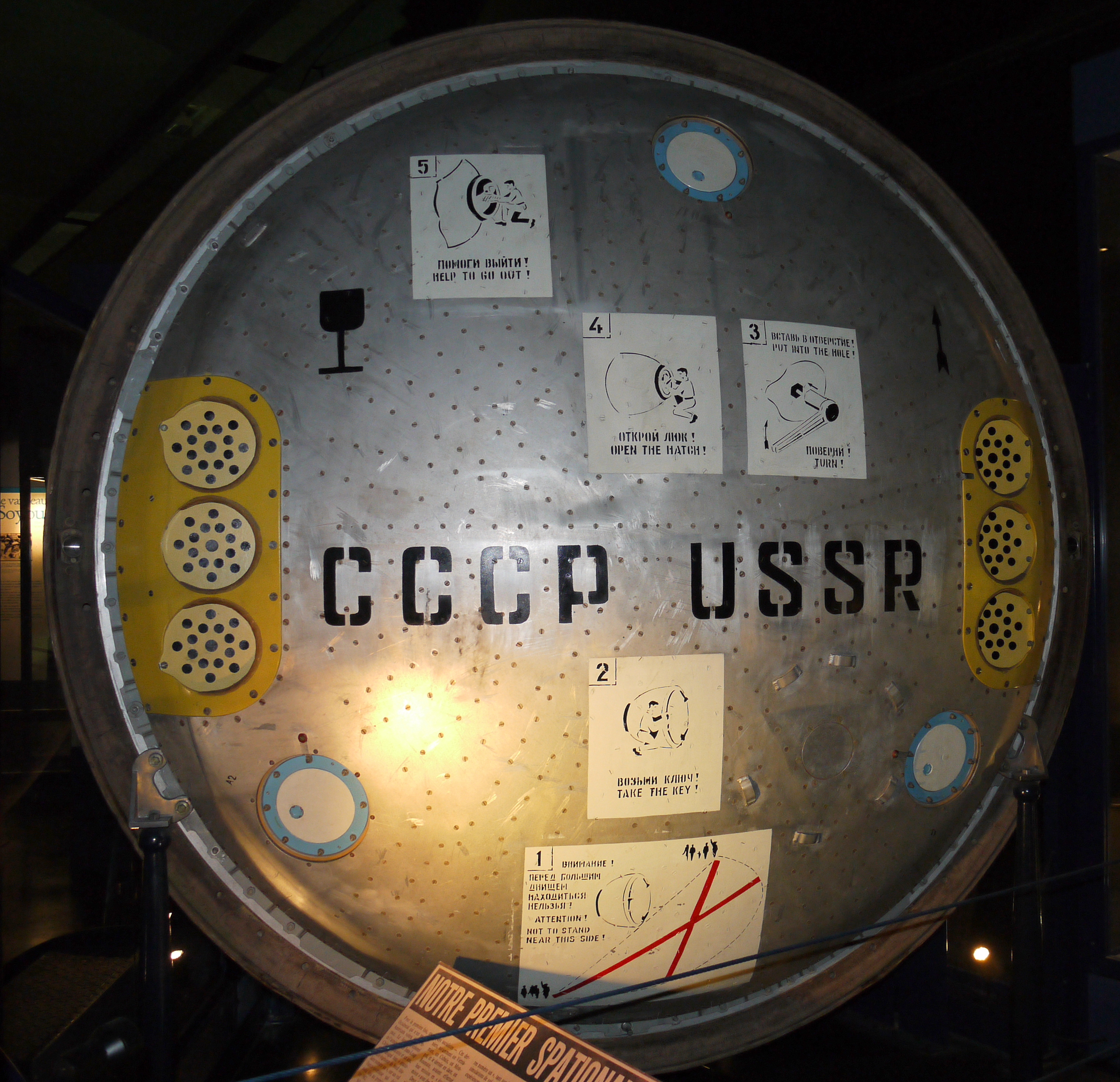 solid-fuel braking engines mounted on the back of the reentry module Soyuz T-6 (1982), Museum of Air and Space Paris, Le Bourget (France)